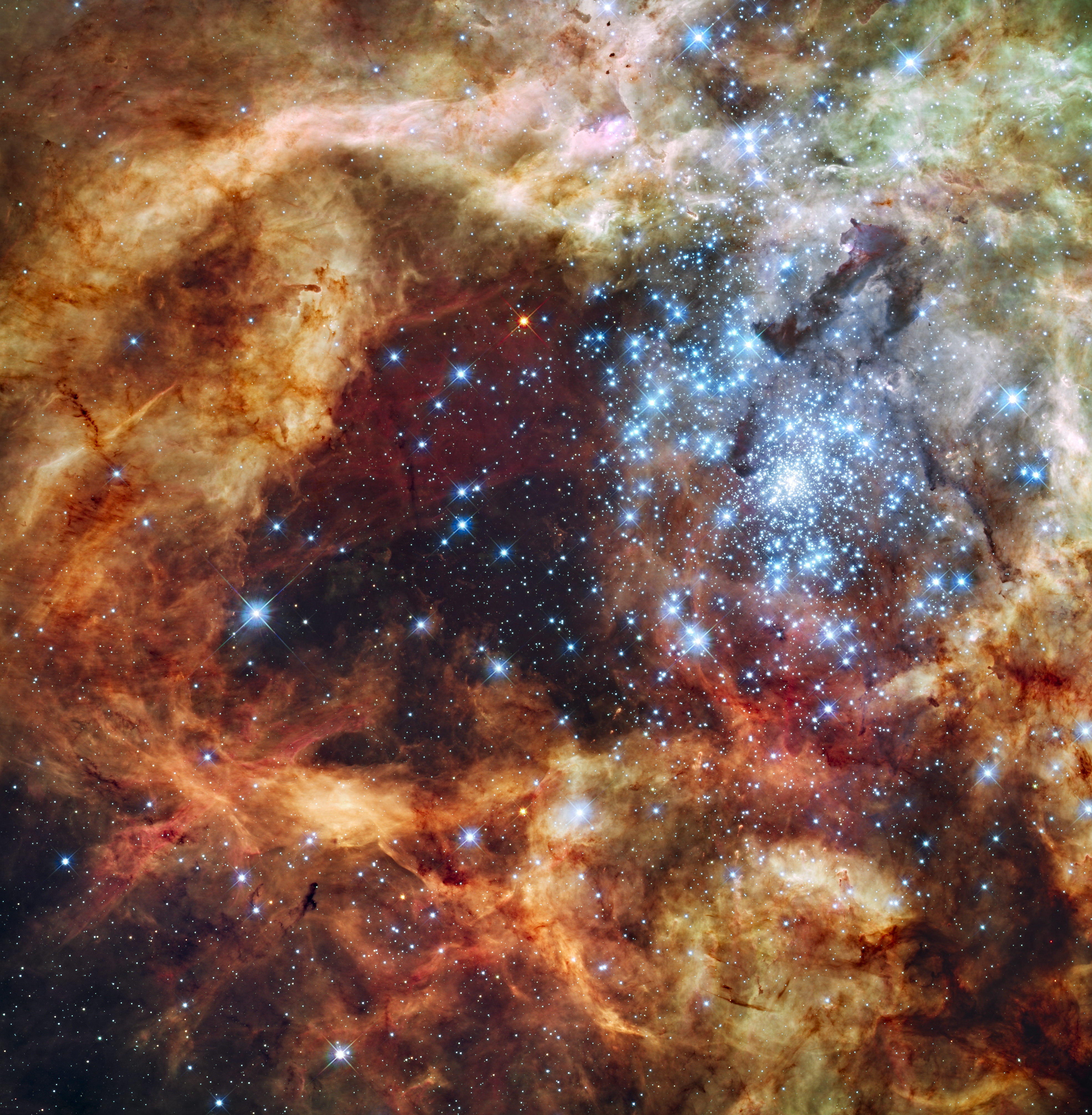 A Hubble Space Telescope image of the R136 super star cluster, near the center of the 30 Doradus Nebula, also known as the Tarantula Nebula or NGC 2070. (Converted to JPG from the source TIFF file)